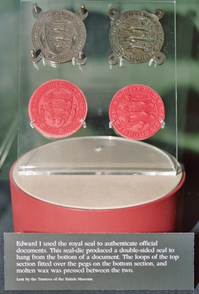 UK, Tower of London: double-sided seal of Edvard I